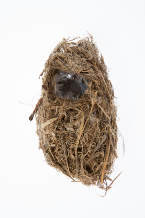 Chatham Island warbler, Gerygone albofrontata (AM LB2070) nest from the collection of Auckland Museum